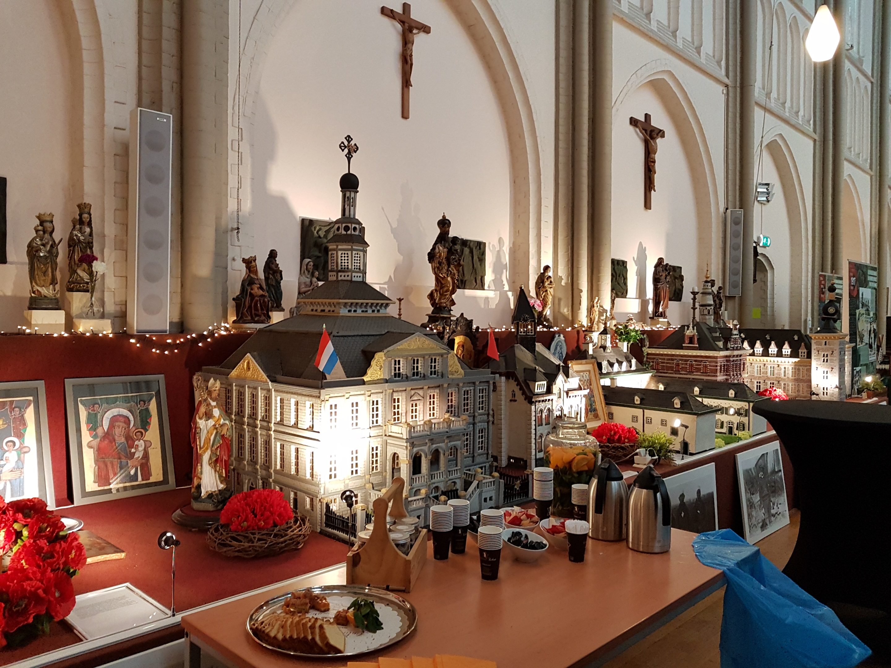 Interior of the Ursuline Chapel in Maastricht, Netherlands. The gothic revival chapel of the former Ursuline Monastery was designed by Johannes Kayser in 1890. It is now used as museum Sjoen Mestreech run by volunteers of the De Merici Foundation for mentally challenged people.